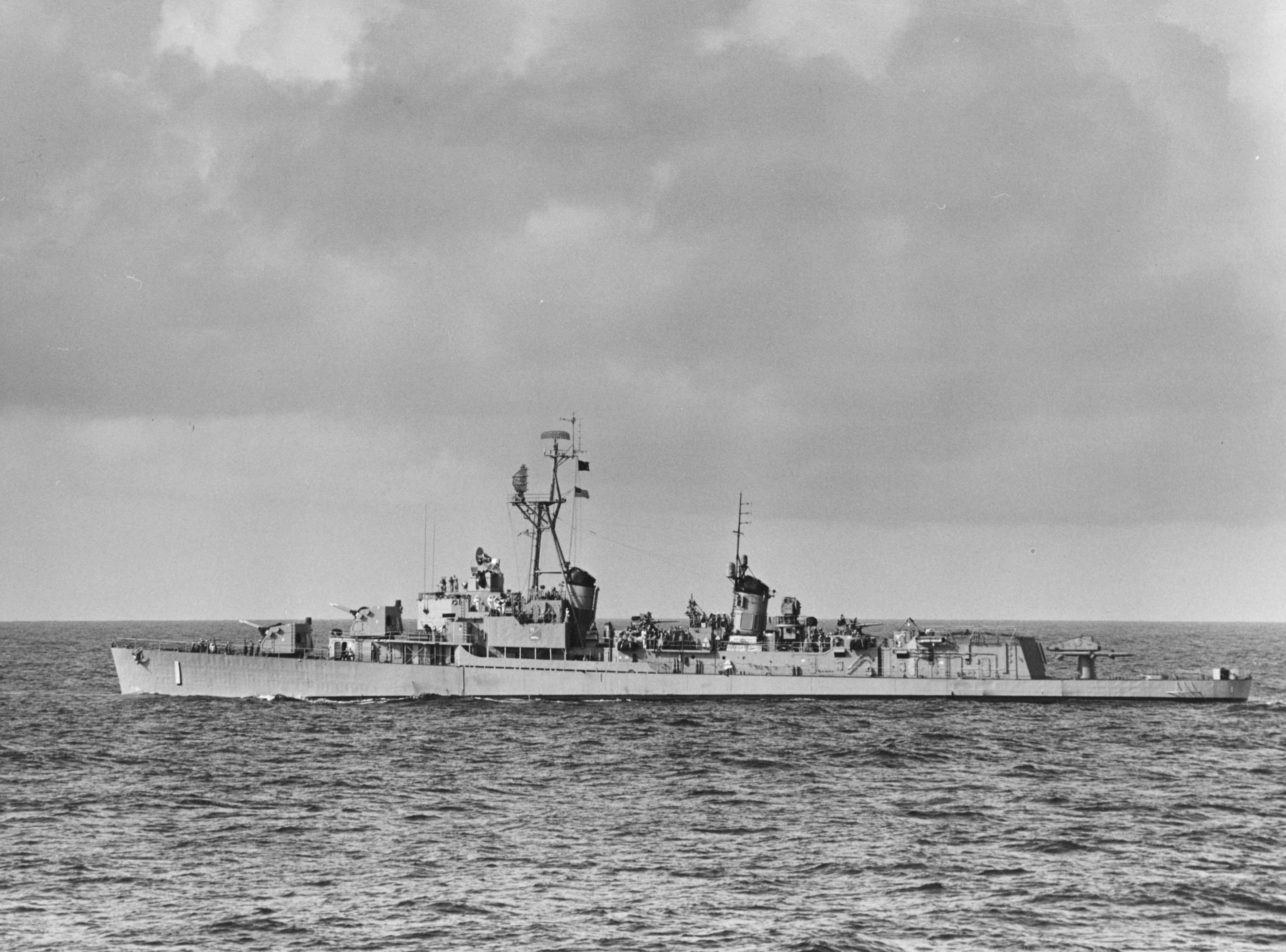 The U.S. Navy guided missile destroyer USS Gyatt (DDG-1) underway at sea on 30 June 1961.